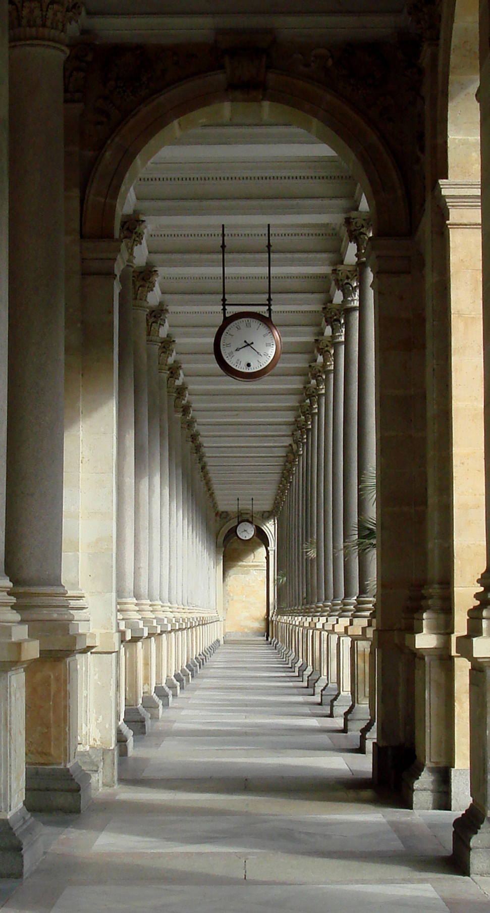 Looking down one of the aisles of the Mill Colonnade, Karlovy Vary, Czech Republic.